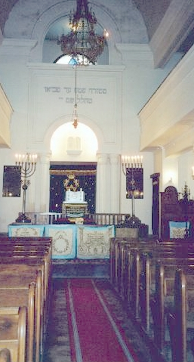 Interior view from Cluj-Napoca Neolog Sinagogue